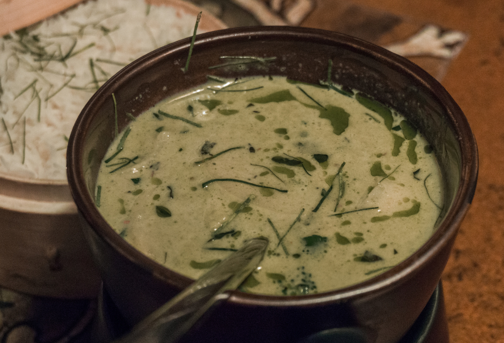 Chicken Thai Green Curry